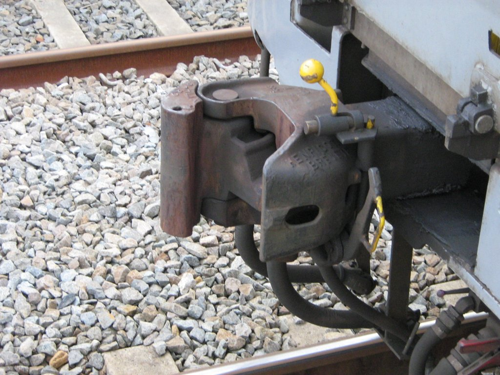 Henricot coupler on a EMU of the SNCB/NMBS.